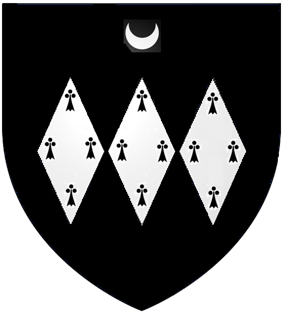 Armorial of Giffard of Brightley (Chittlehampton, Devon): Sable, three fusils conjoined in fesse ermine for difference a crescent in chief argent